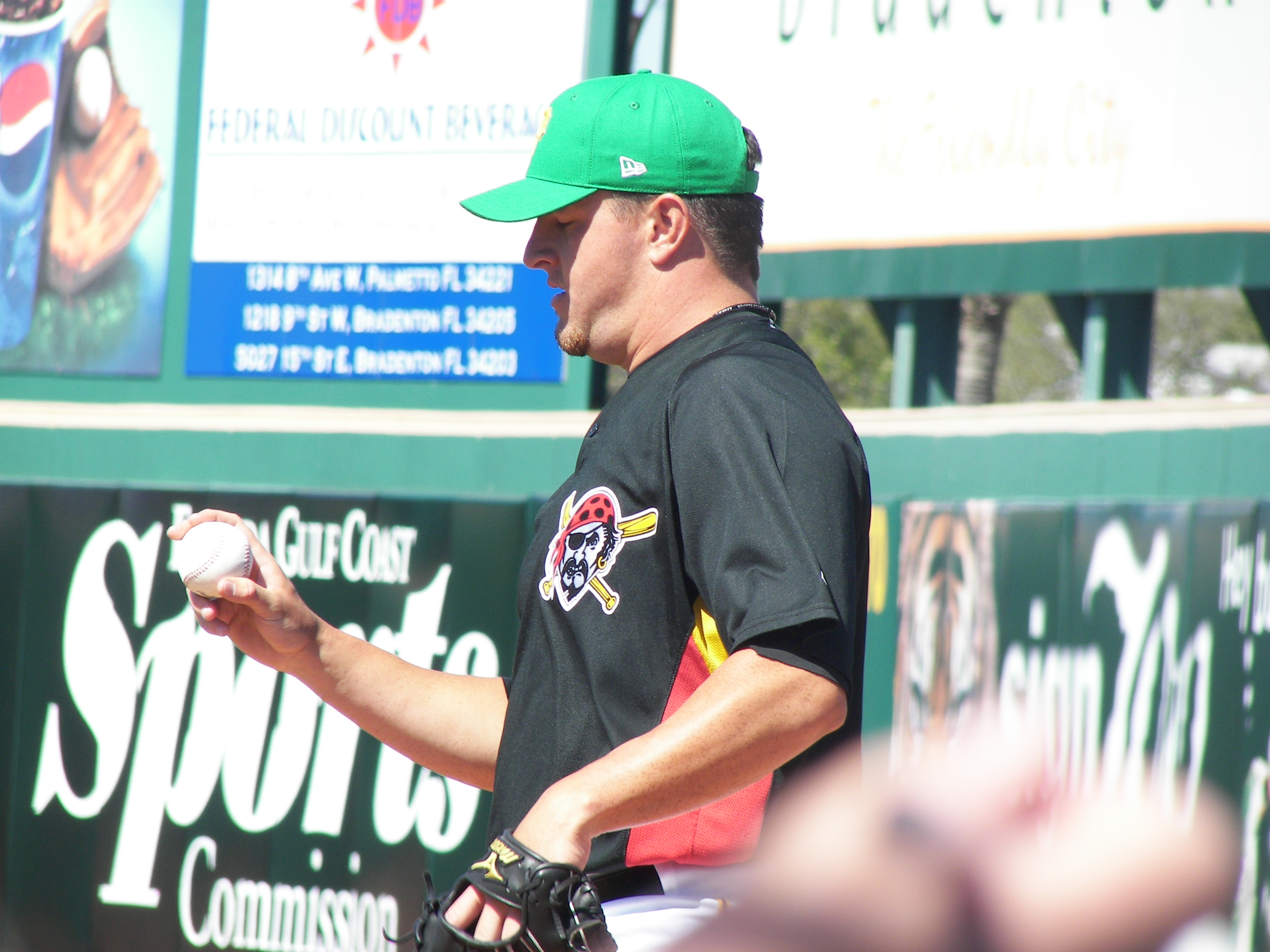 Pittsburgh Pirates pitcher Matt Capps during a Pirates/Minnesota Twins spring training game at McKechnie Field in Bradenton, Florida.